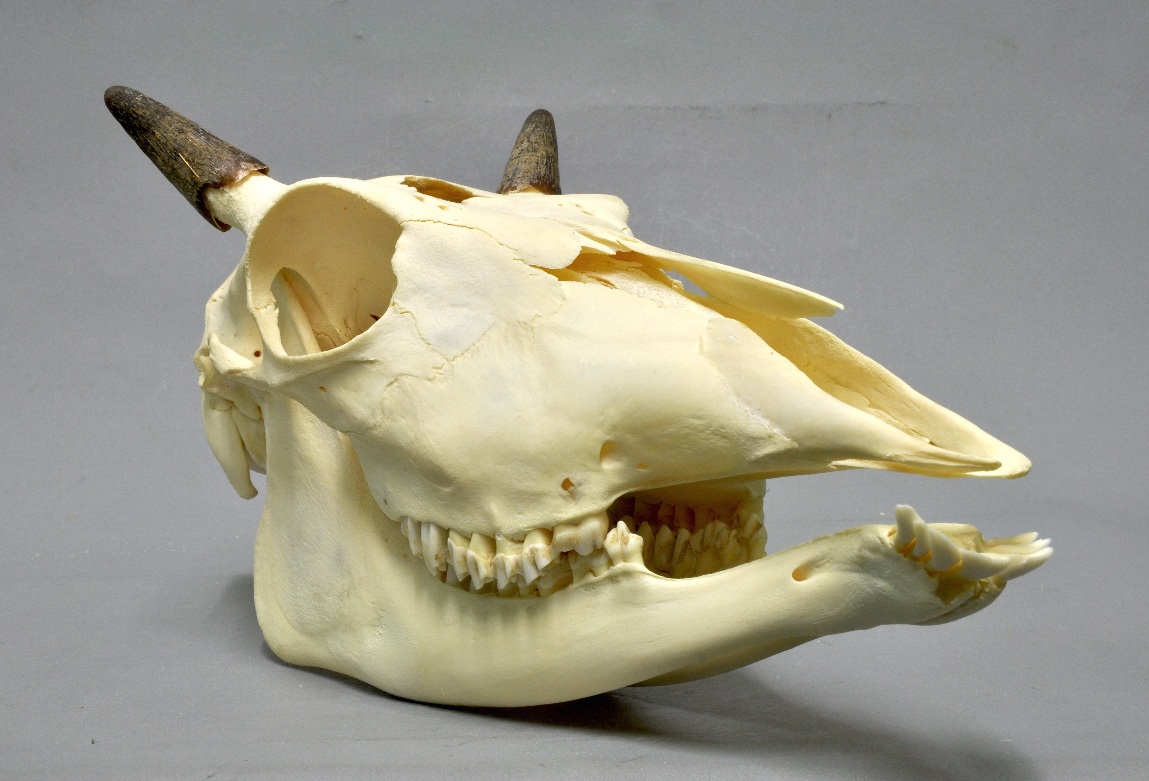 Nilgai Boselaphus tragocamelus, skull, Coll. Museum Wiesbaden